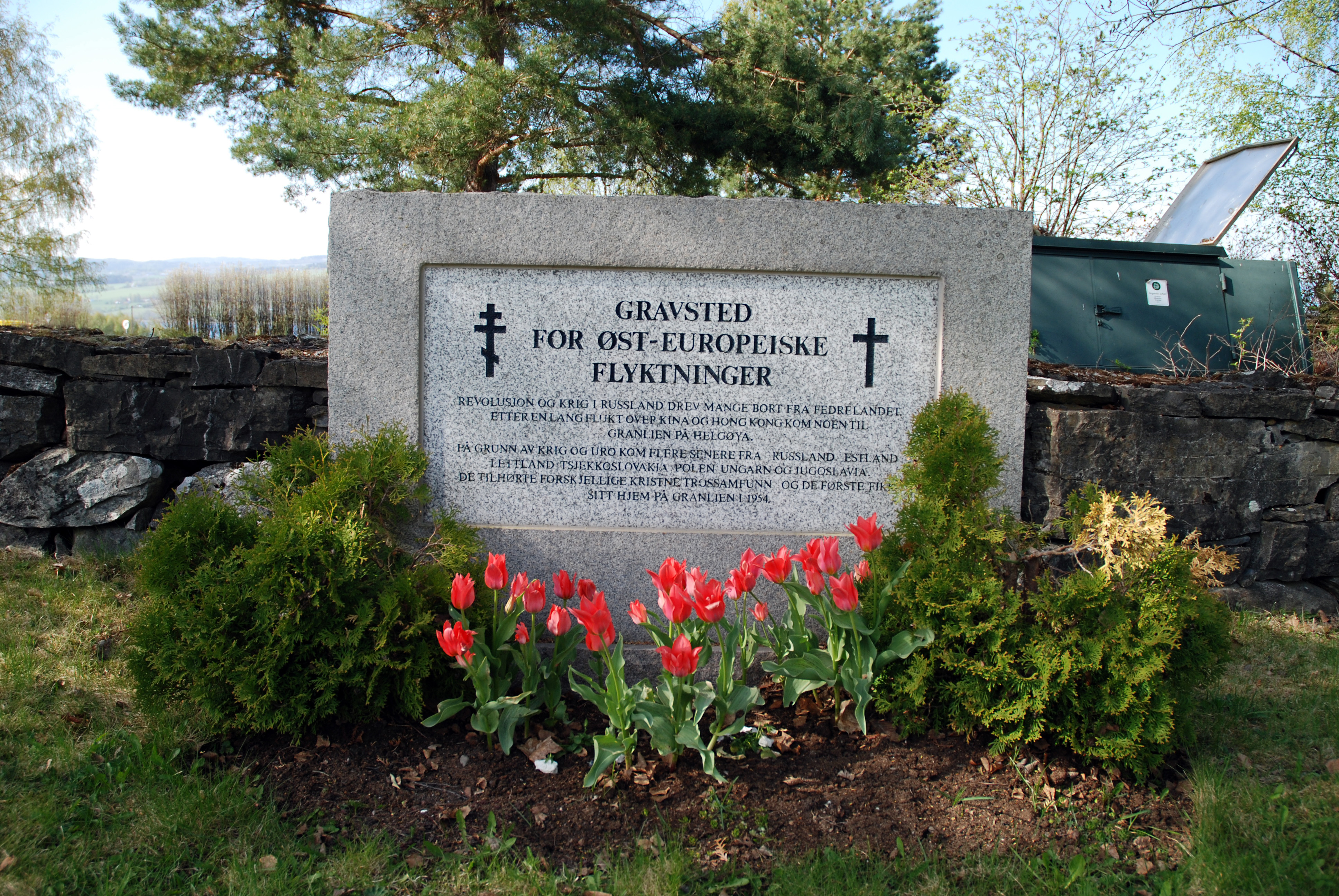 Cemetery for east europian refugees at Helgøya church, in Ringsaker, Hedmark, Norway.